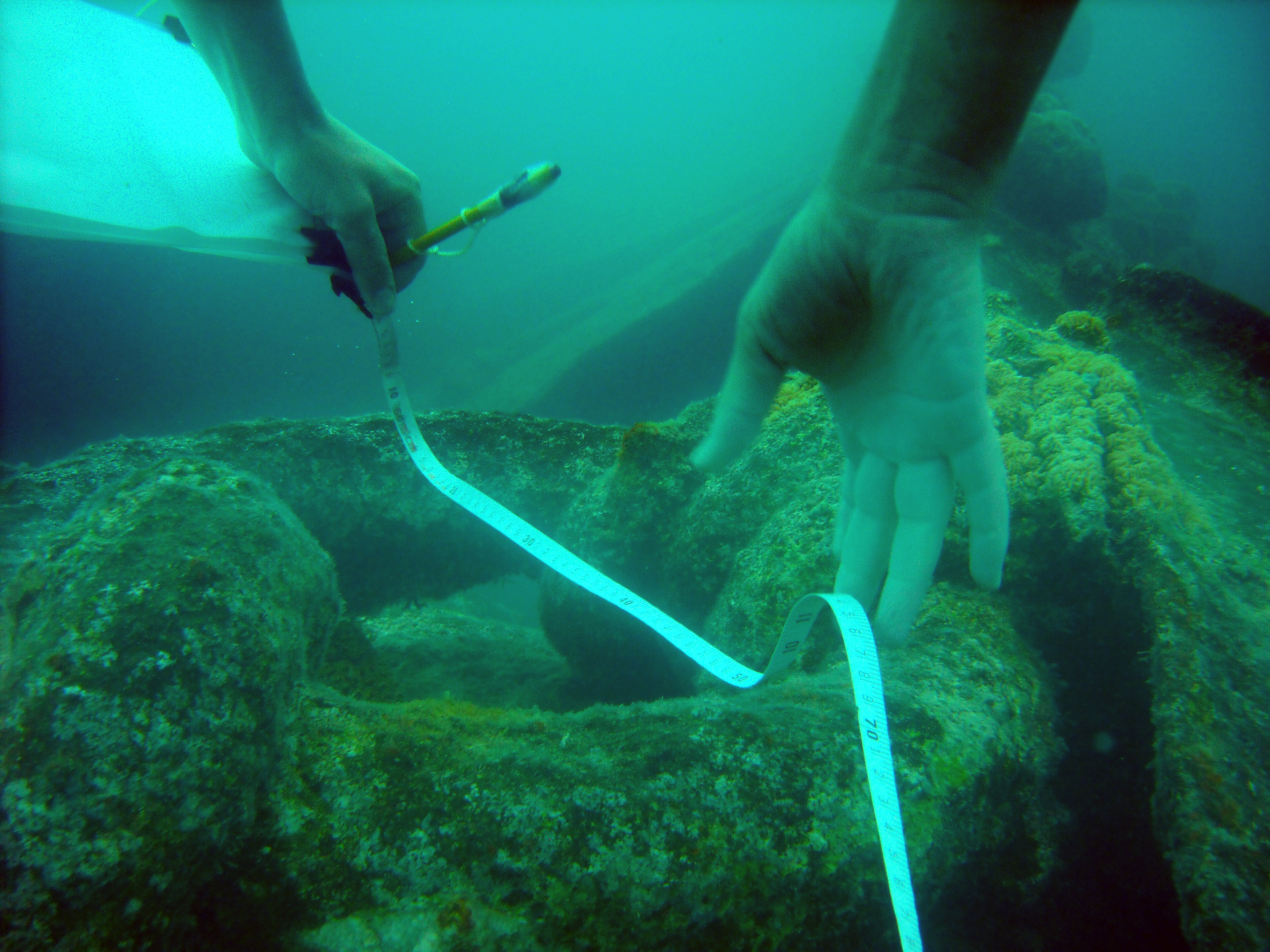 Archaeologist taking measurements of a large chain link on the site of the Japanese Merchant Vessel in Tanapag Lagoon. WWII Maritime Heritage Trail - Battle of Saipan